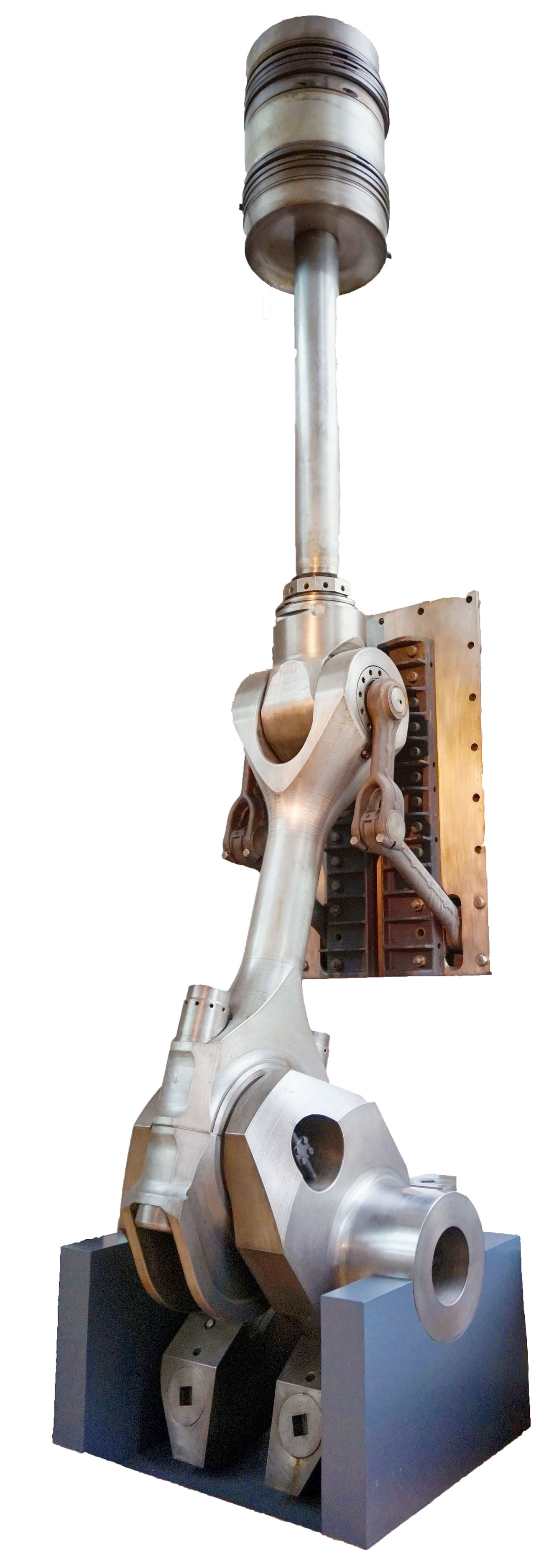 Running gear for the M9Z 65/95 Diesel engine, from 1938. MAN museum, Augsburg.This photograph was taken with a Sony ILCE-5000